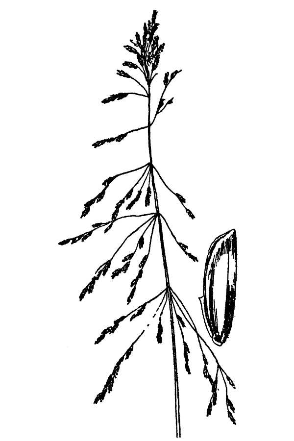 Puccinellia distans